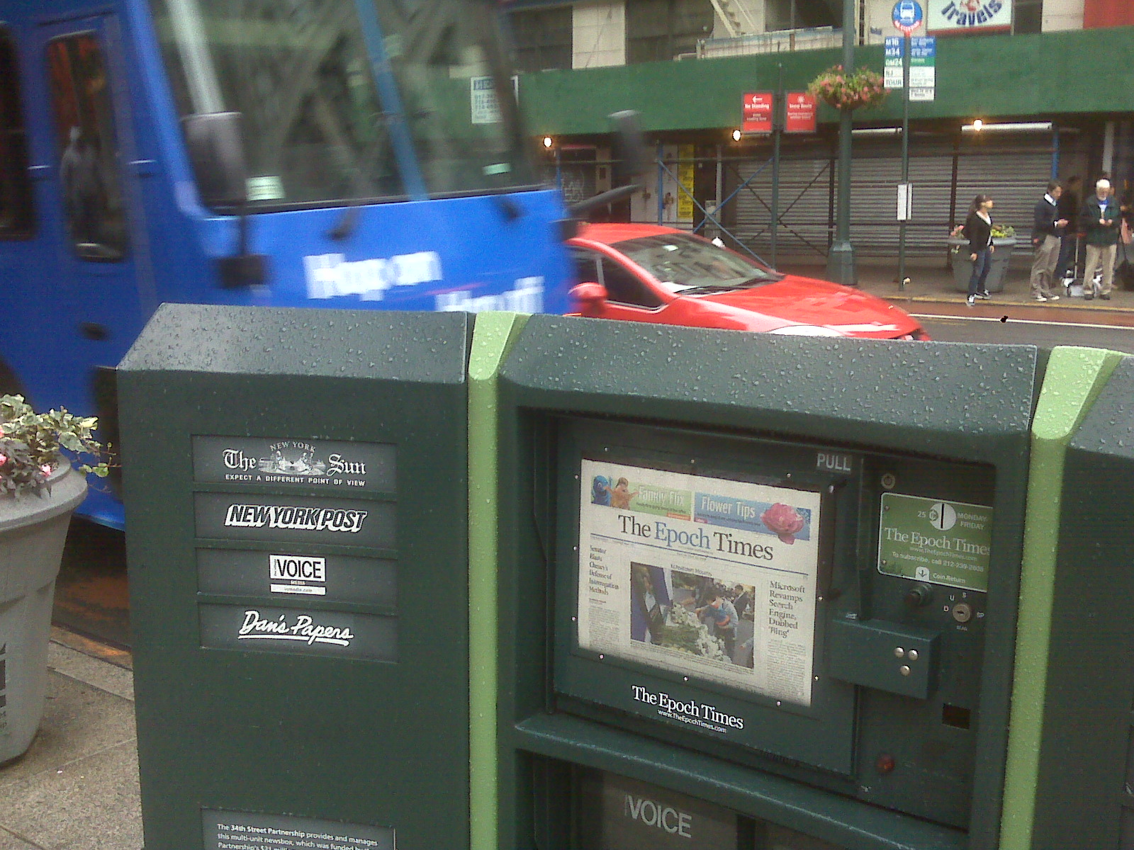 Epoch Times in a box selling on 42nd street in Manhattan